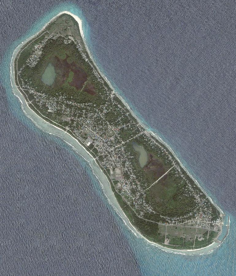 A satellite image of Fuvahmulah by Department of National Planning, Maldives. The labels on the image have been removed with some edits.